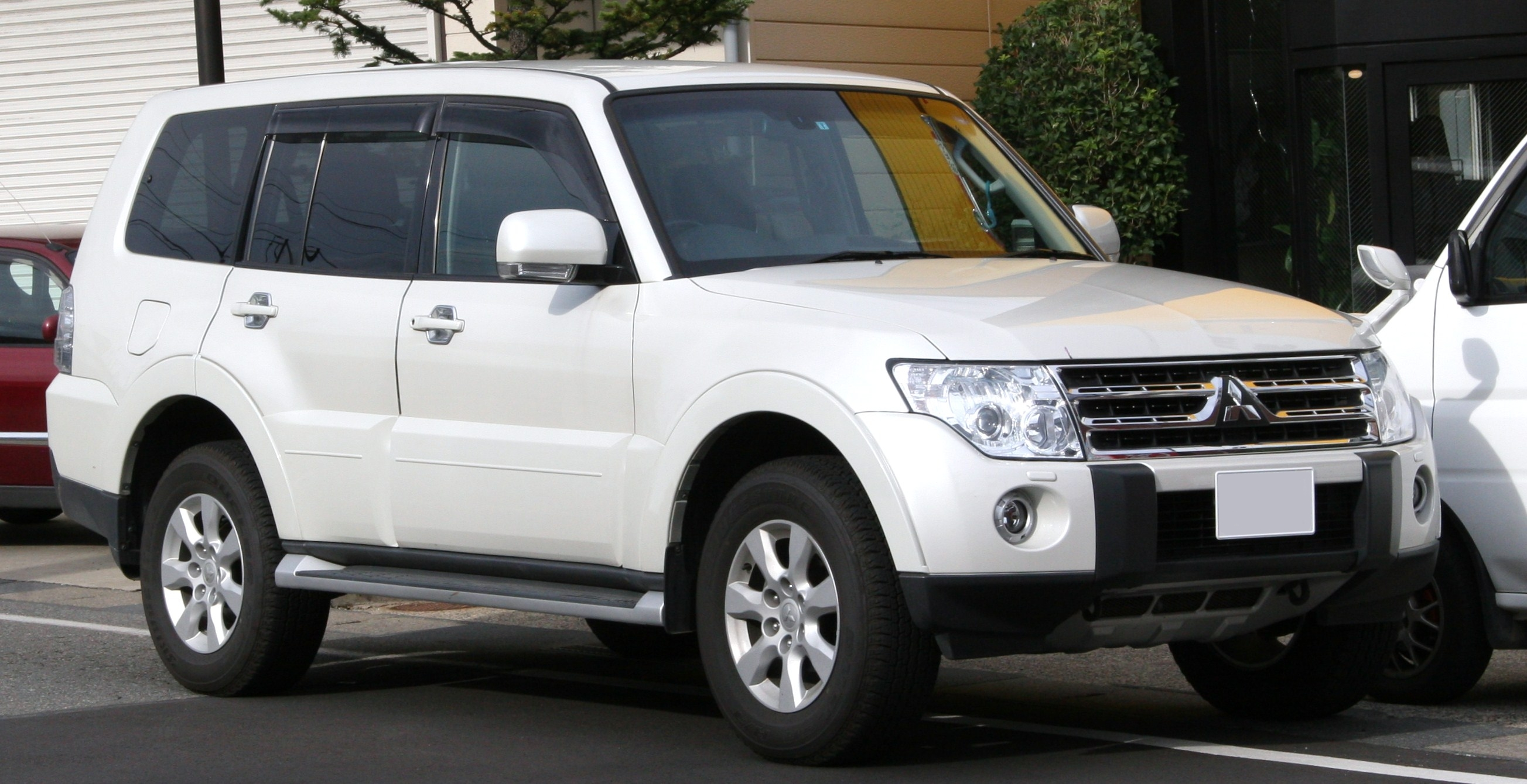 Mitsubishi Pajero